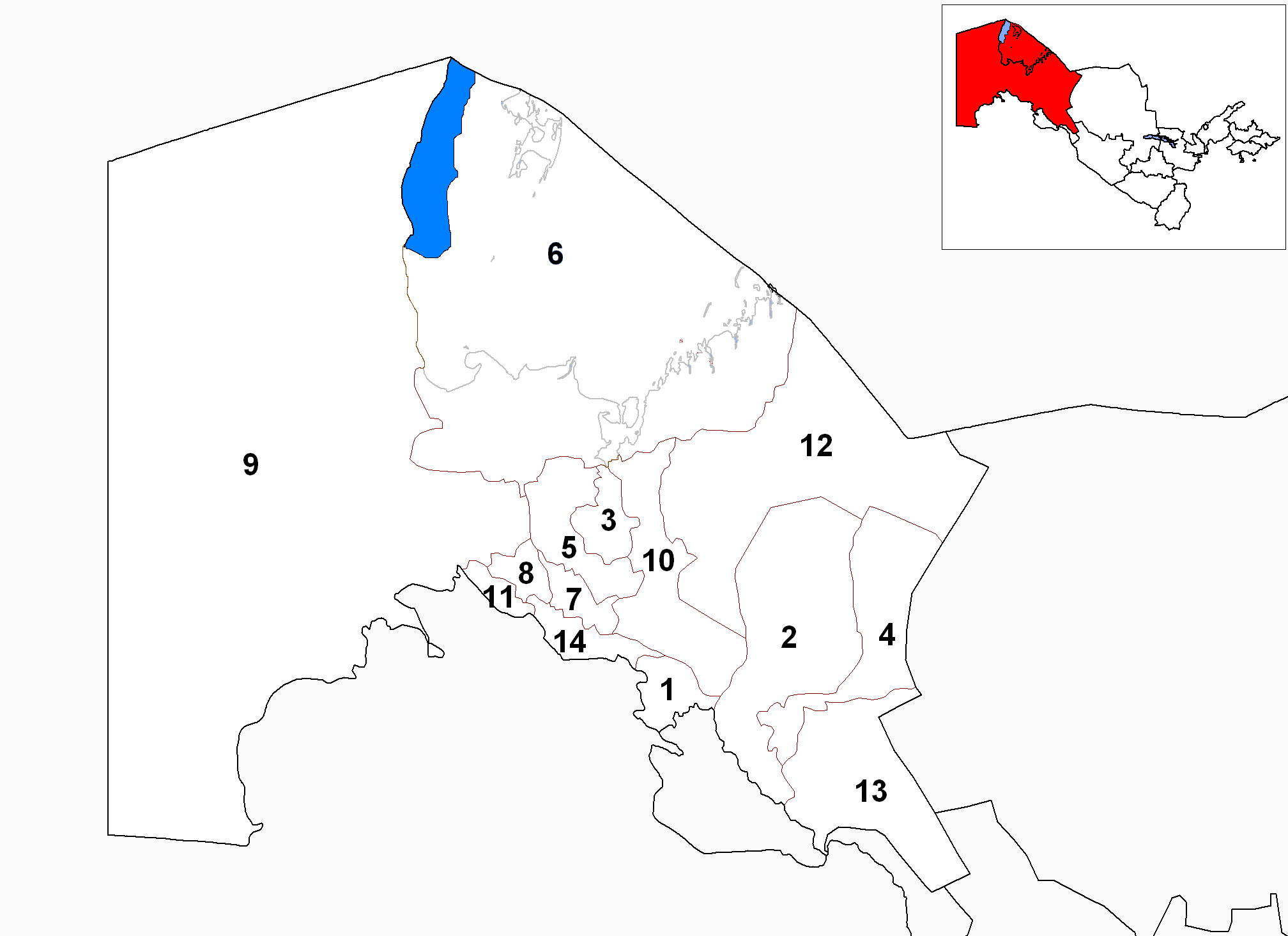 Map of the districts (tuman) of the Republic of Karakalpakstan in Uzbekistan.